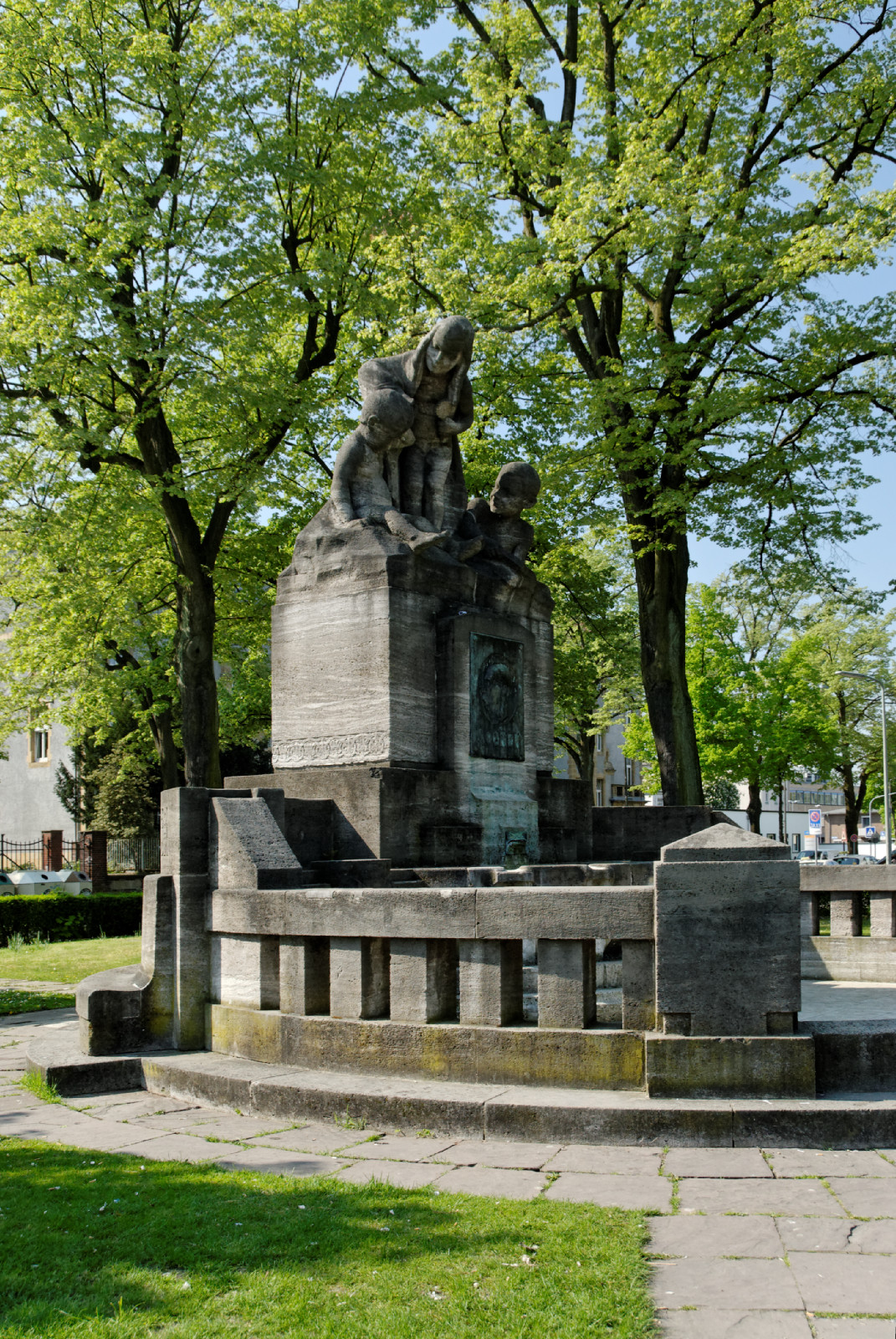 Albert Mooren fountain in Düsseldorf-Bilk, Germany